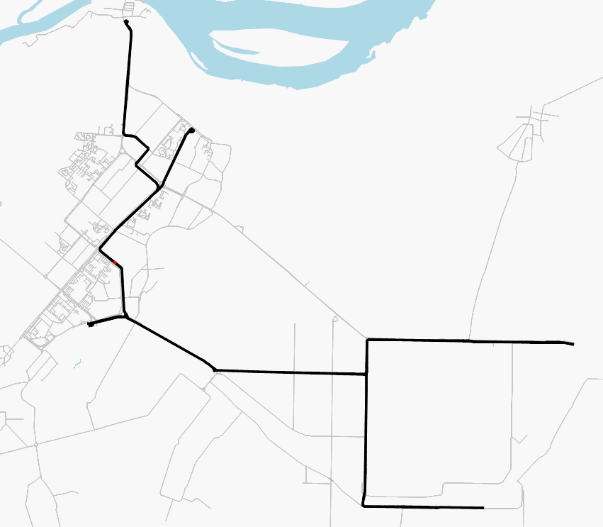 Nizhnekamsk tram system, rendered using OSM data. This map may be incomplete, and may contain errors. Don't rely solely on it for navigation.